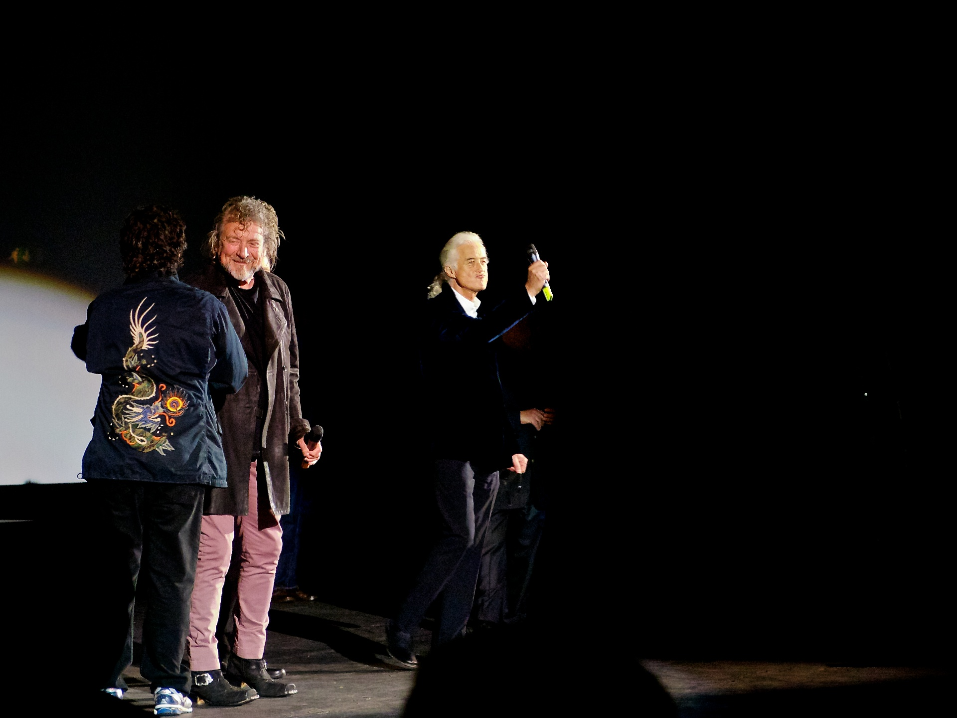 Led Zepplin being welcomed to the stage by director Dick Carruthers to talk to press about the film Celebration Day at its premiere at the Hammersmith Apollo in London, England, United Kingdom